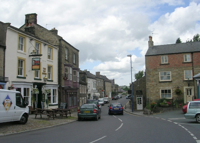 Silver Street